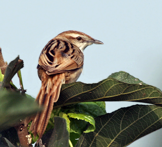 Striated Grassbird ((Megalurus palustris)) in Kolkata, West Bengal, India.